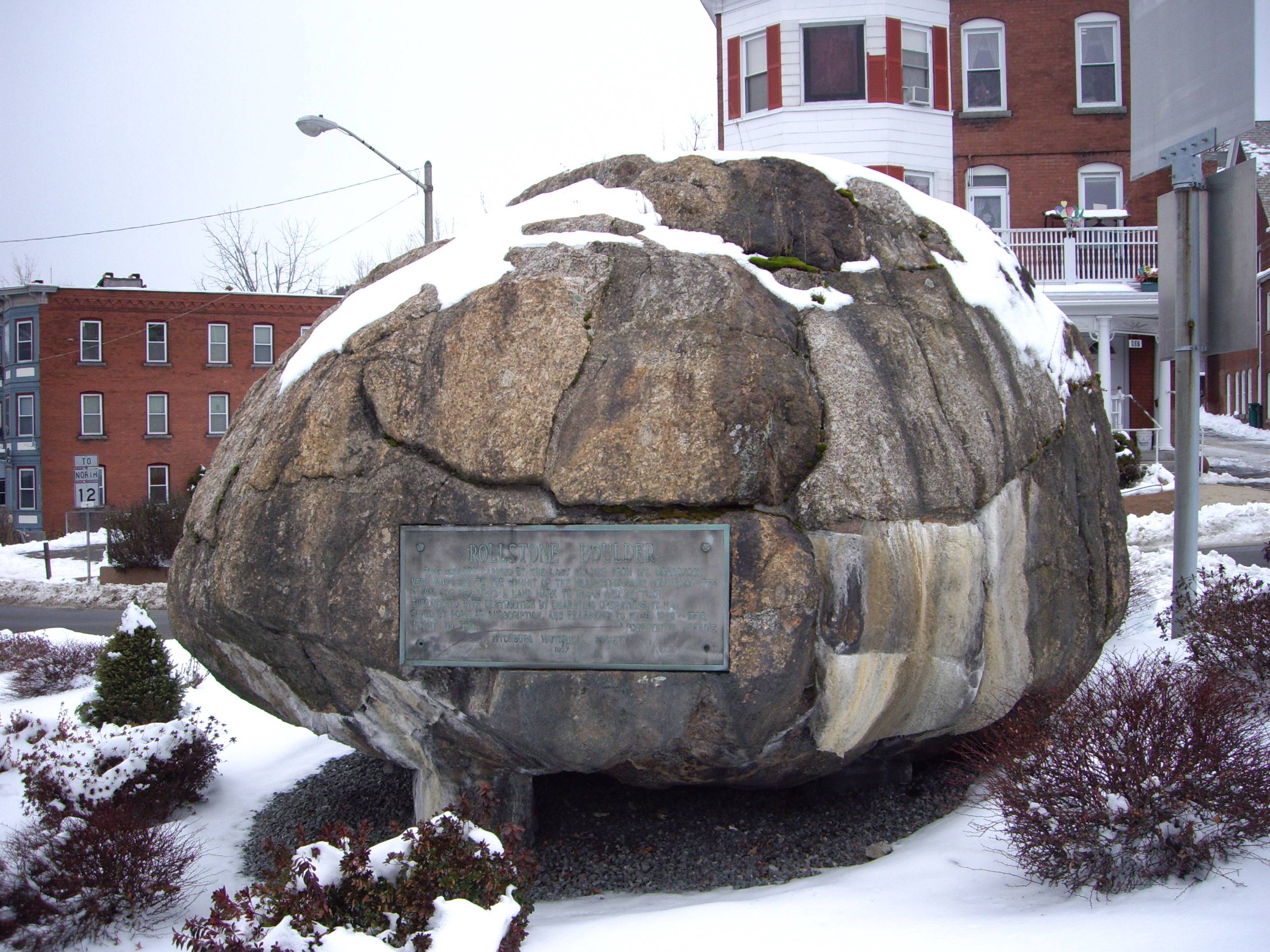 The Rollstone Boulder in Fitchburg Massachusetts